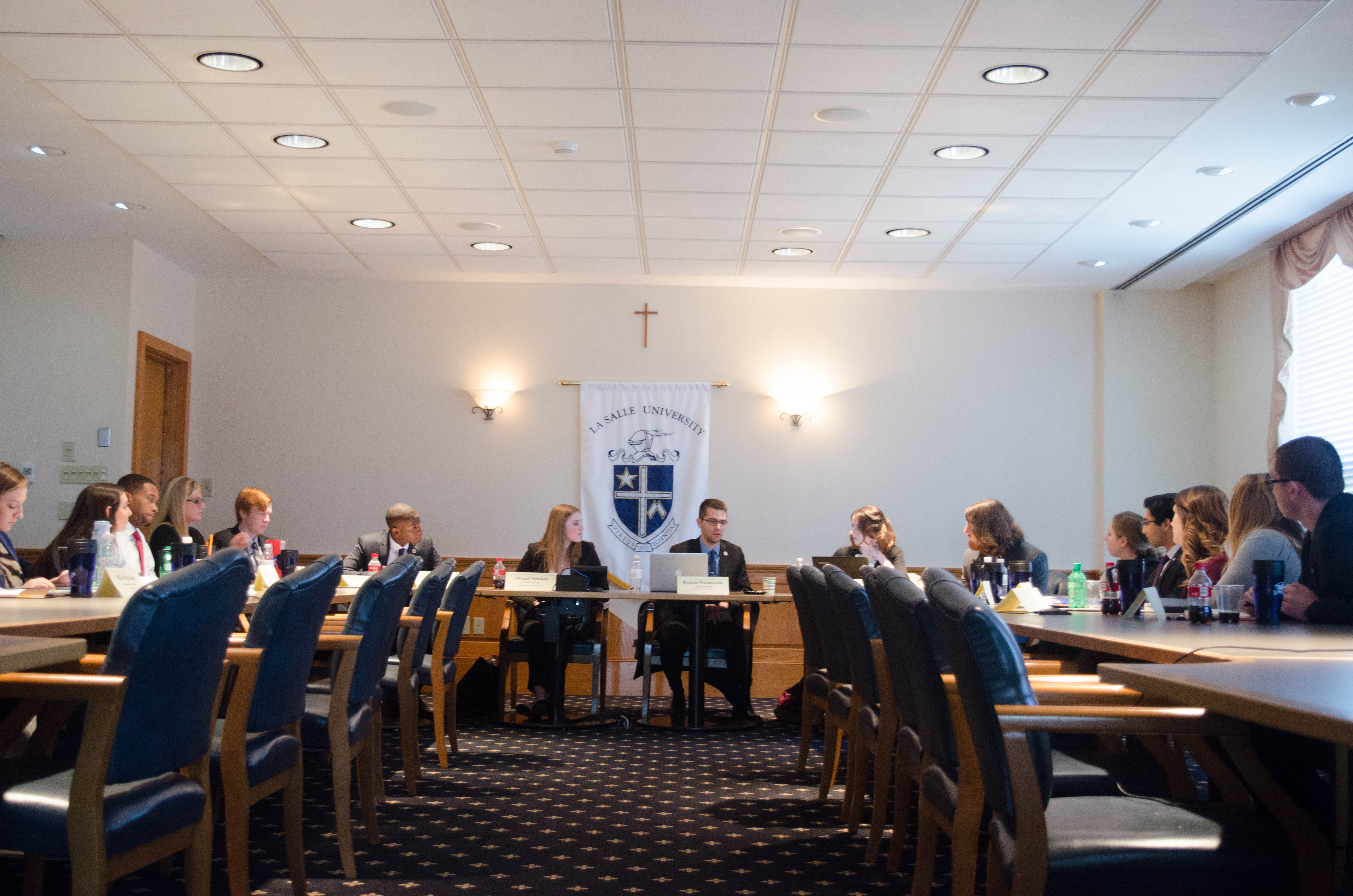 Philadelphia Big 5 student governments meet at La Salle University